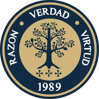 This is the official image of the university.